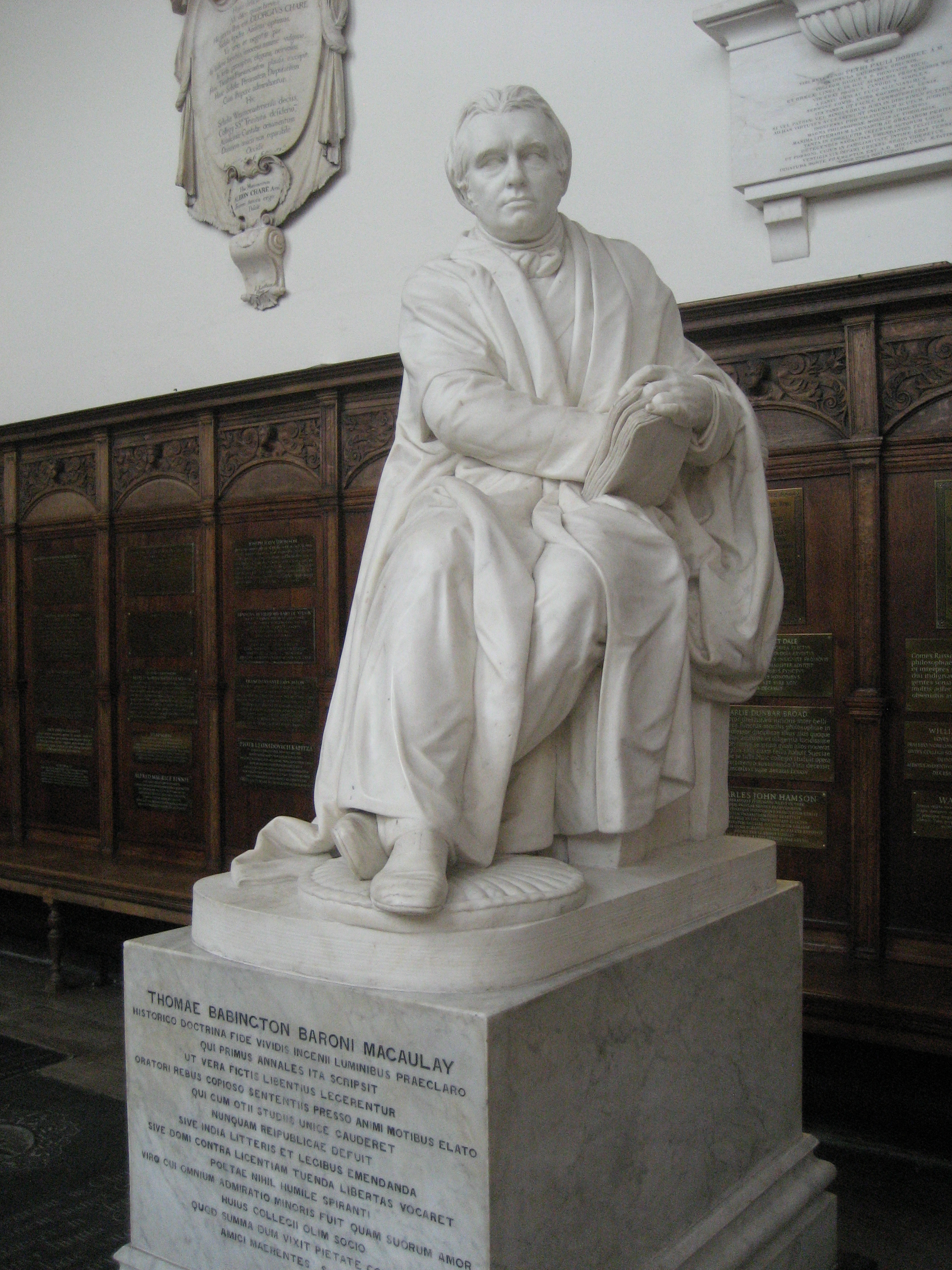 Thomas Babington Macaulay, 1st Baron Macaulay. Statue by Thomas Woolner. Trinity College Chapel, Cambridge, England (UK)